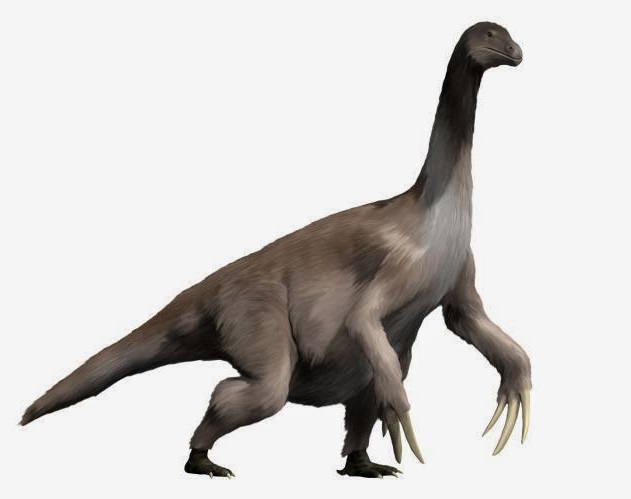 Restoration of Therizinosaurus cheloniformis.